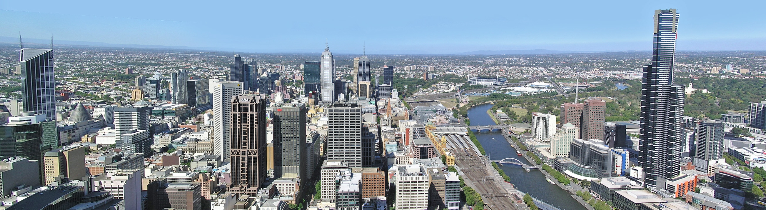 Melbourne CBD panorama view with urban sprawl towards the Mount Dandenong. (The image was stitched from four photos in landscape format)